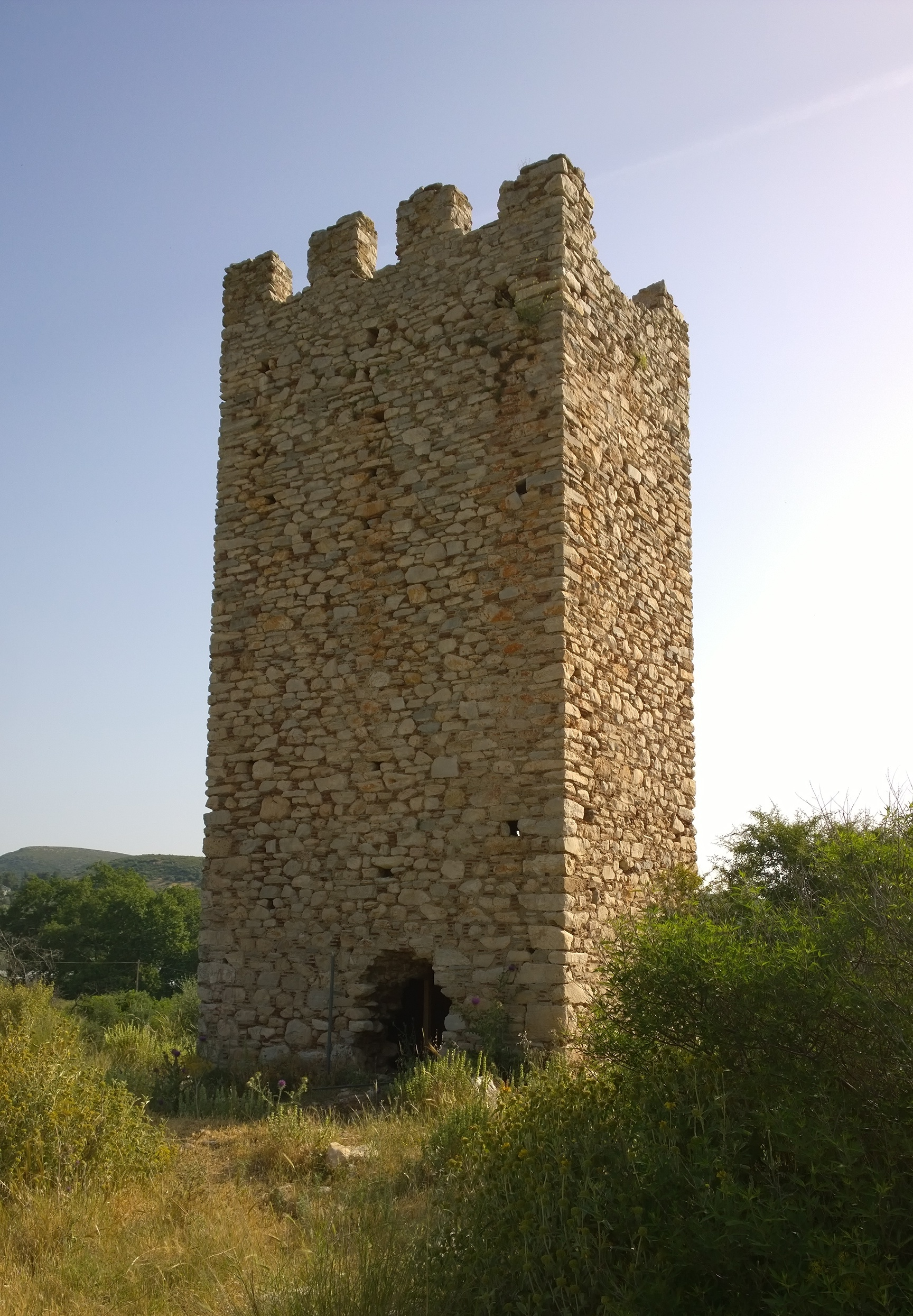 Ruins of Frankish Tower, Oinoi